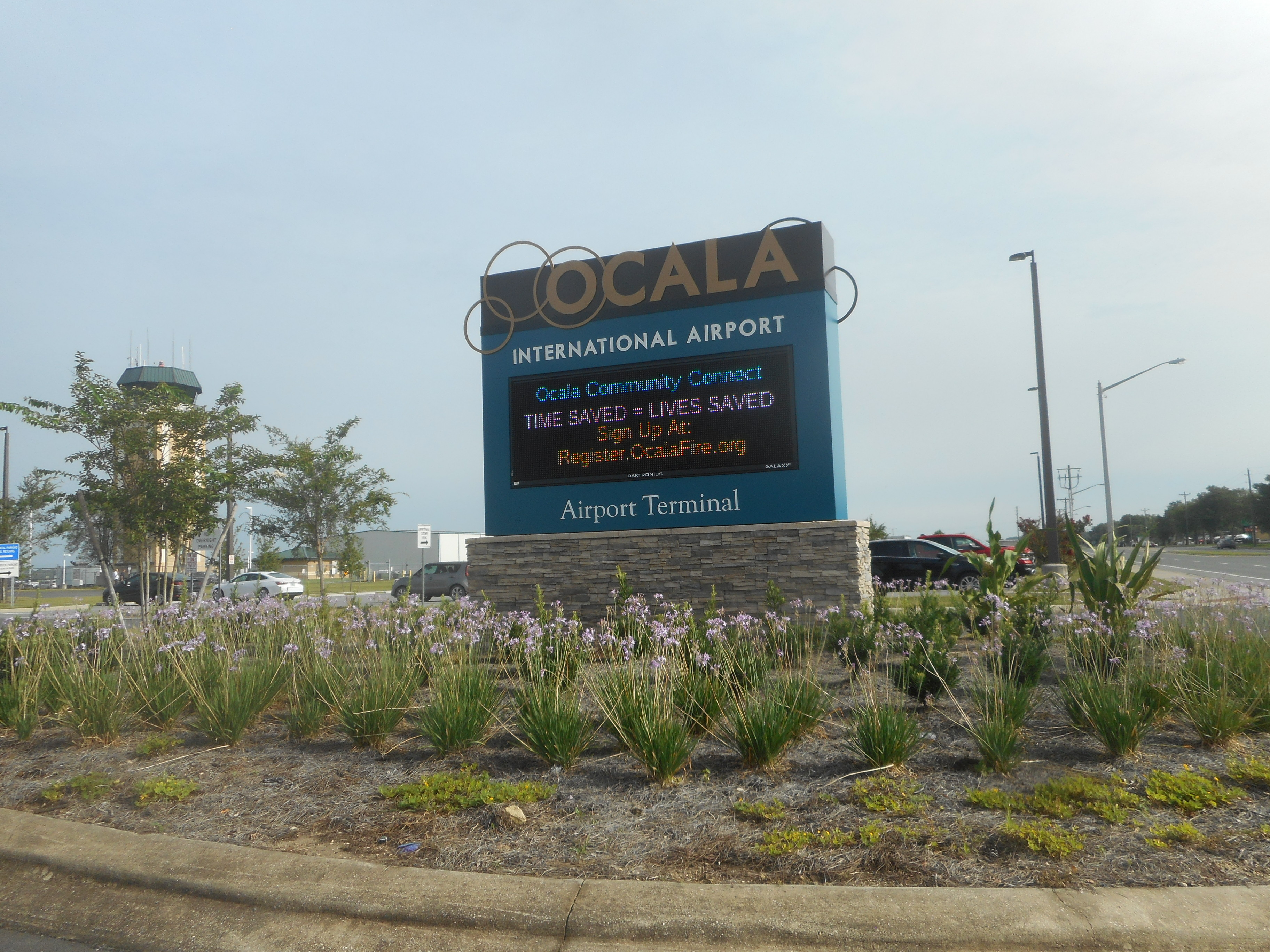 Sign between the entrance and exit at the terminal of Ocala International Airport on Southwest 60th Avenue in western Ocala, Florida. Taken from my car at the exit from the terminal.